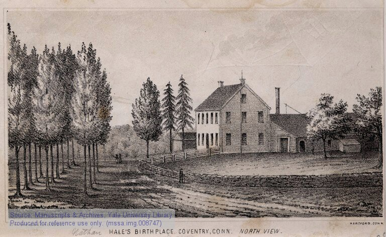 "Hale's birthplace, Coventry, Conn., North View," lithograph showing birthplace of American Revolutionary War spy and patriot Nathan Hale in Coventry, Connecticut. Image courtesy of the Yale University Manuscripts & Archives Digital Images Database.